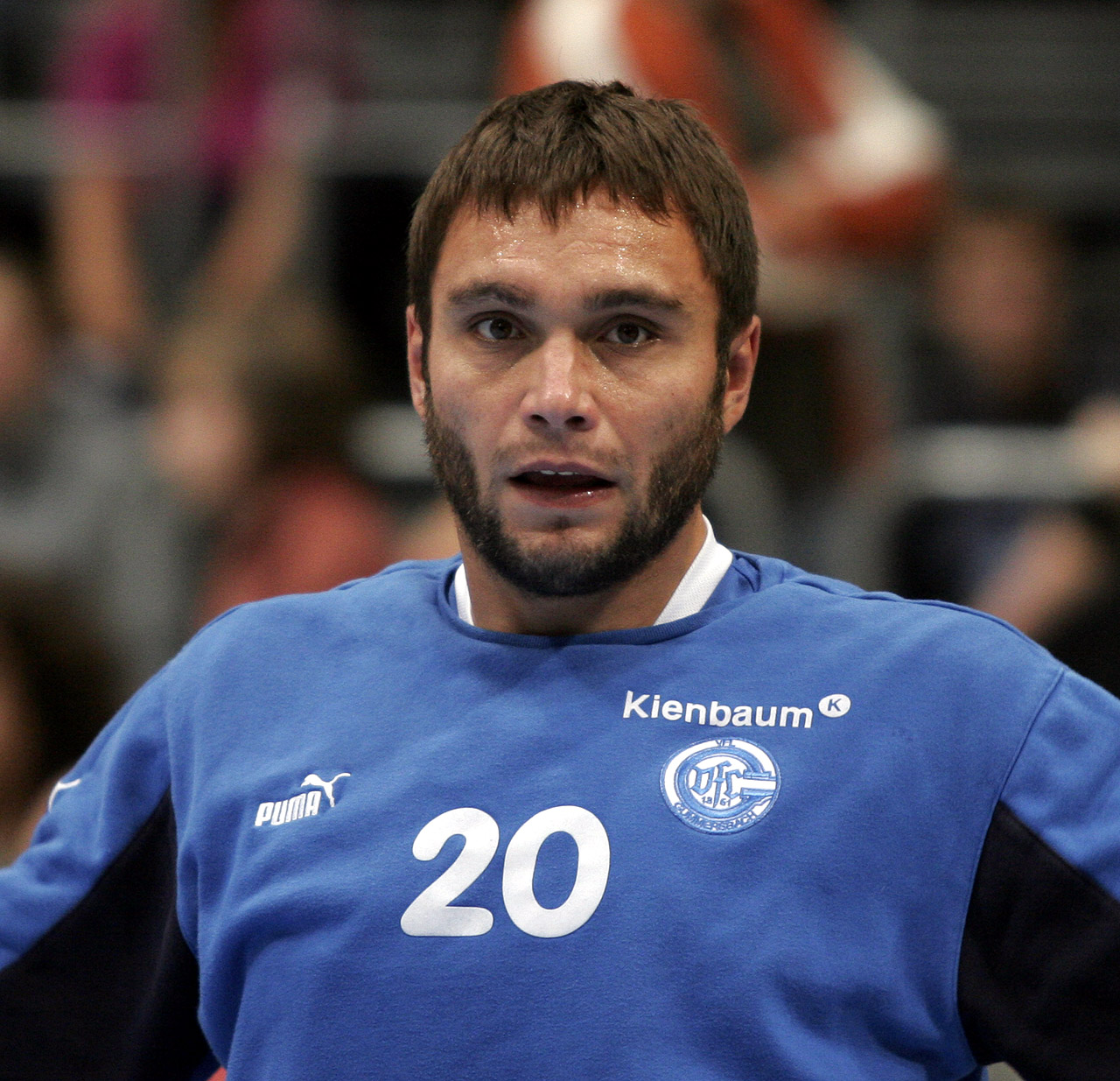 Oleg Michajlovič Kulešov, handball player of VfL Gummersbach, in the Kölnarena during the game VfL Gummersbach - SG Flensburg-Handewitt